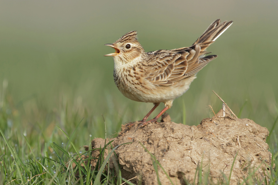 Taken at RSPB Frampton Marsh